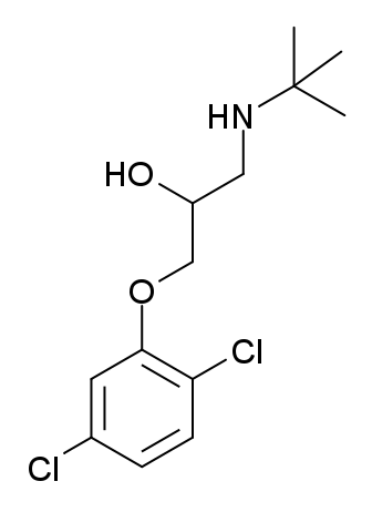 i drew this anyone can use it